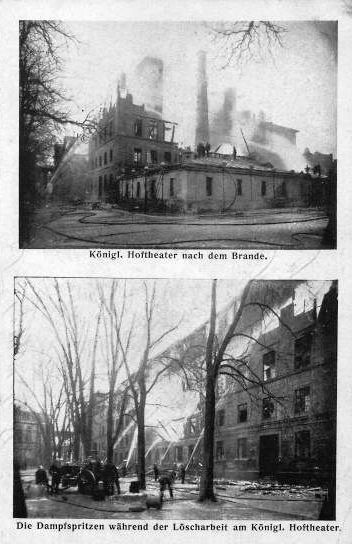 Brand des Stuttgarter Hoftheaters Januar 1902